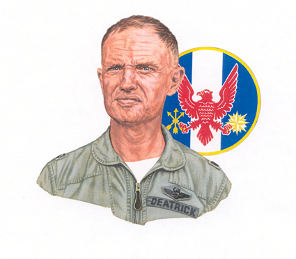 Air University's 2000 Gathering of Eagles lithograph of honoree test pilot Gene Deatrick